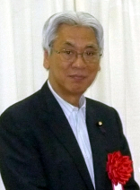 Toshio Ogawa, Senior Vice-Minister of Justice, attended the Opening Ceremony of the National Exhibition of the Prison Industry at the Science Museum, Tokyo in Chiyoda Ward, Tōkyō Metropolis on June 3, 2011. (For terms of use, see 法務省：法務省ウェブサイトのコンテンツの利用について.)